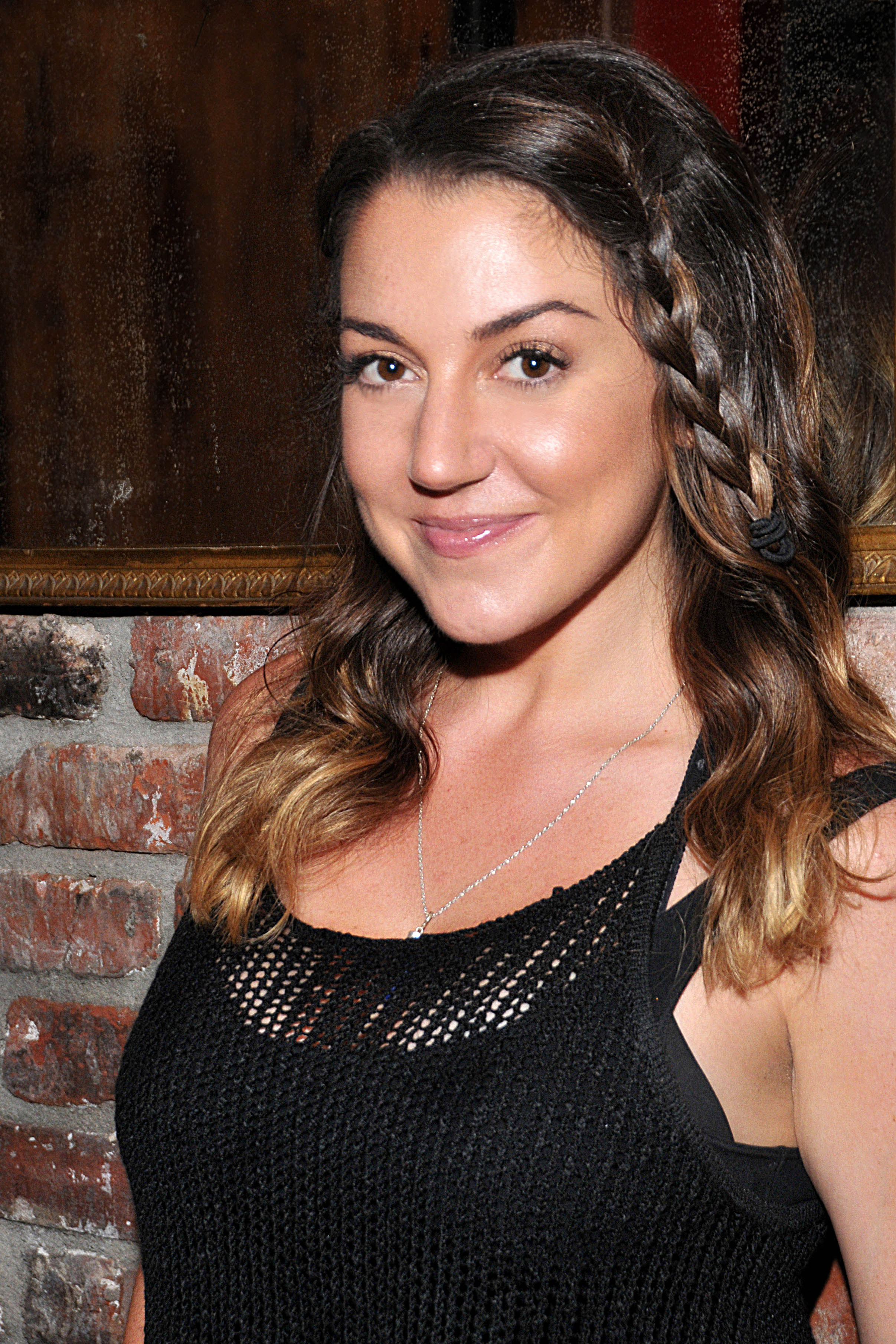 Amie Miriello, Hollywood, California on August 15, 2015 - Photo by Glenn Francis of